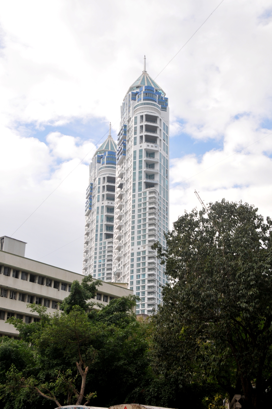 Imperial Towers at Tardeo, Mumbai - One of the tallest buildings in Mumbai